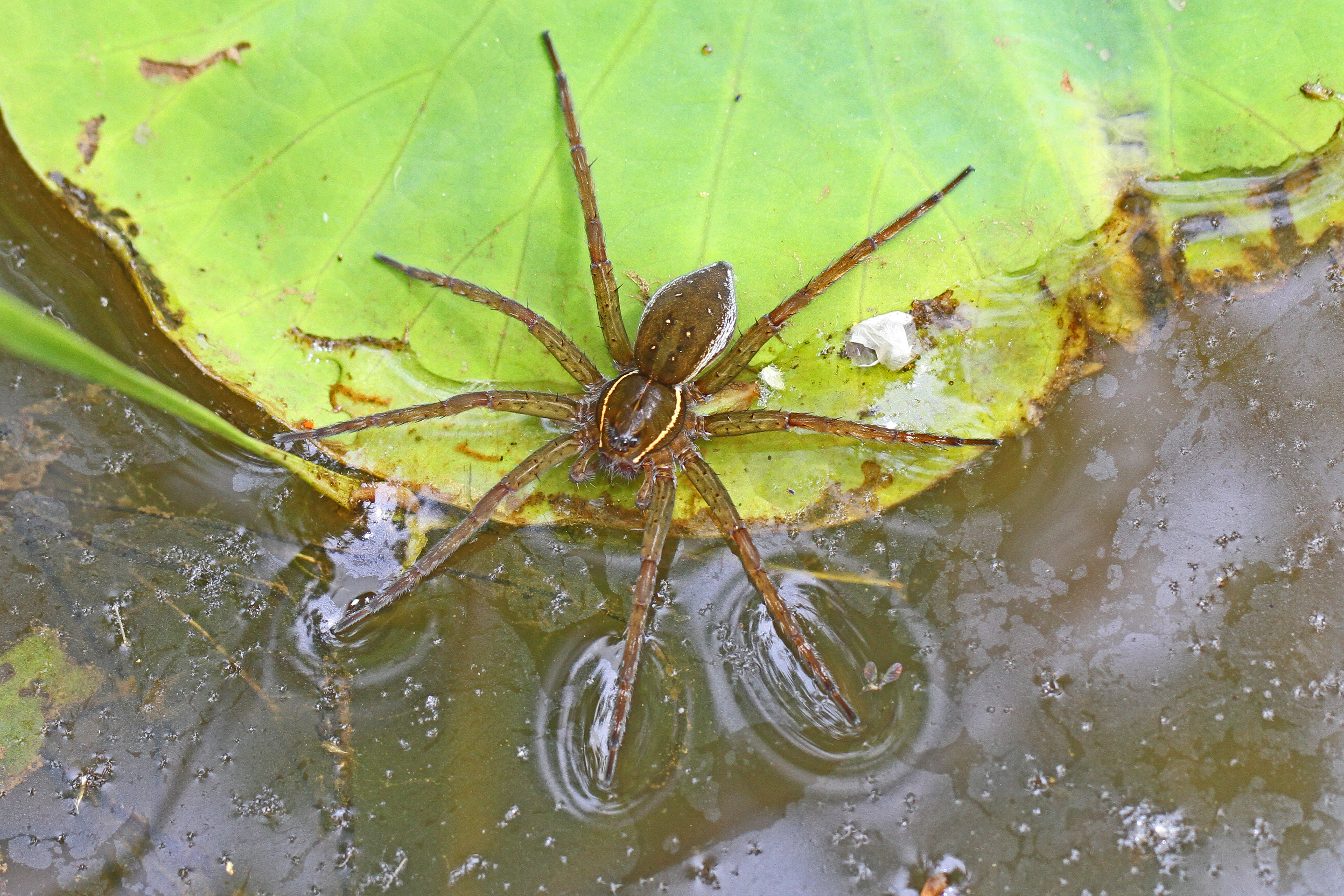 Six-spotted Fishing Spider - Dolomedes triton, Water Way Farm, Lovettsville, Virginia. This spider can walk (well actually it runs) on water. You can see how it works with the depressions in the surface around its legs. The legs are coated with a substance that repels water, and the weight of the spider is not enough to break the surface tension. It's amazing.